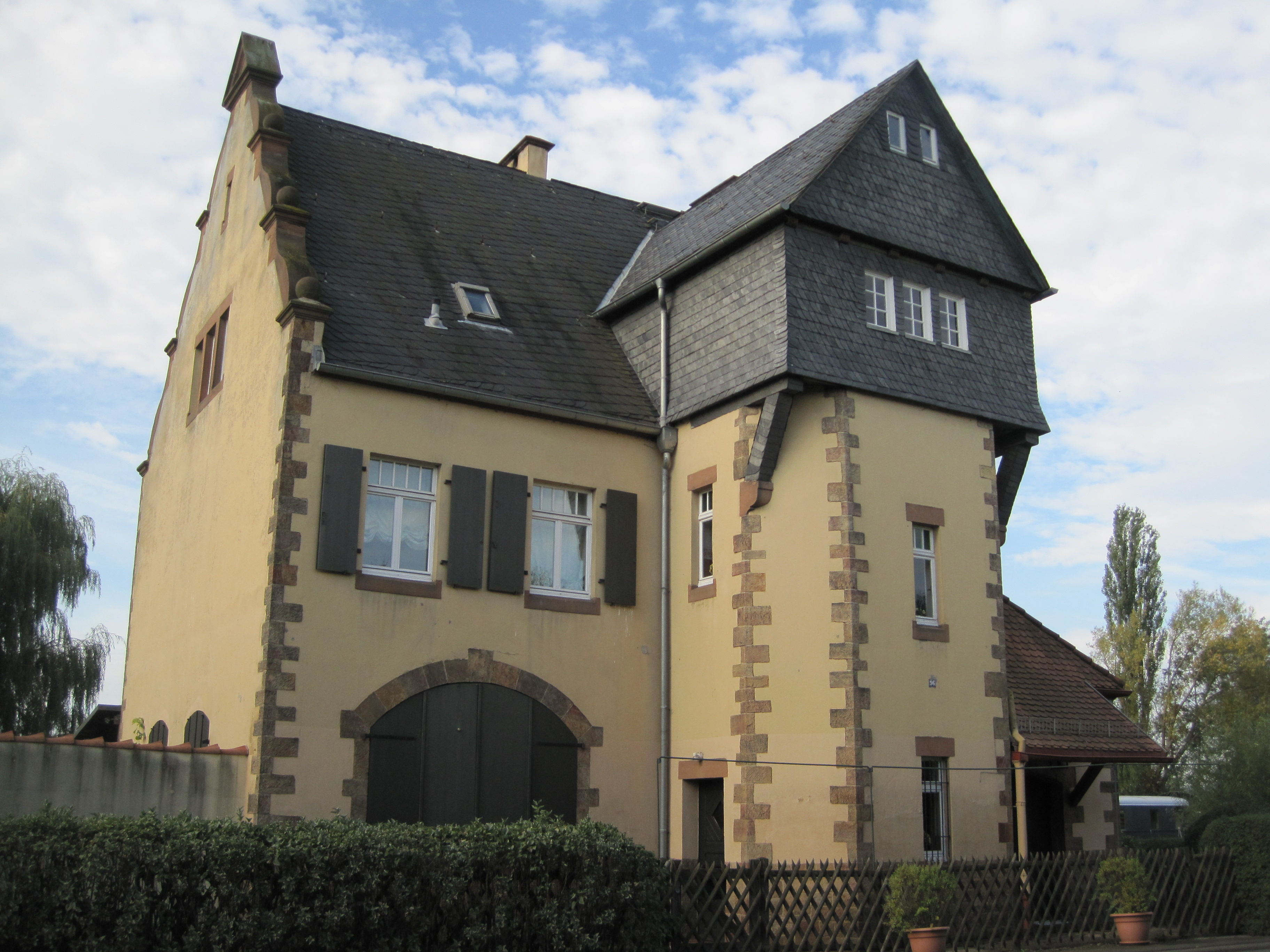 Münzenberg station, Münzenberg, Germany (→ weitere 1,291 Bilder von mir in der Galerie)AuthorStefan FlöperPermission (Reusing this file) cc-by-sa-3.0, gfdl 1.2+